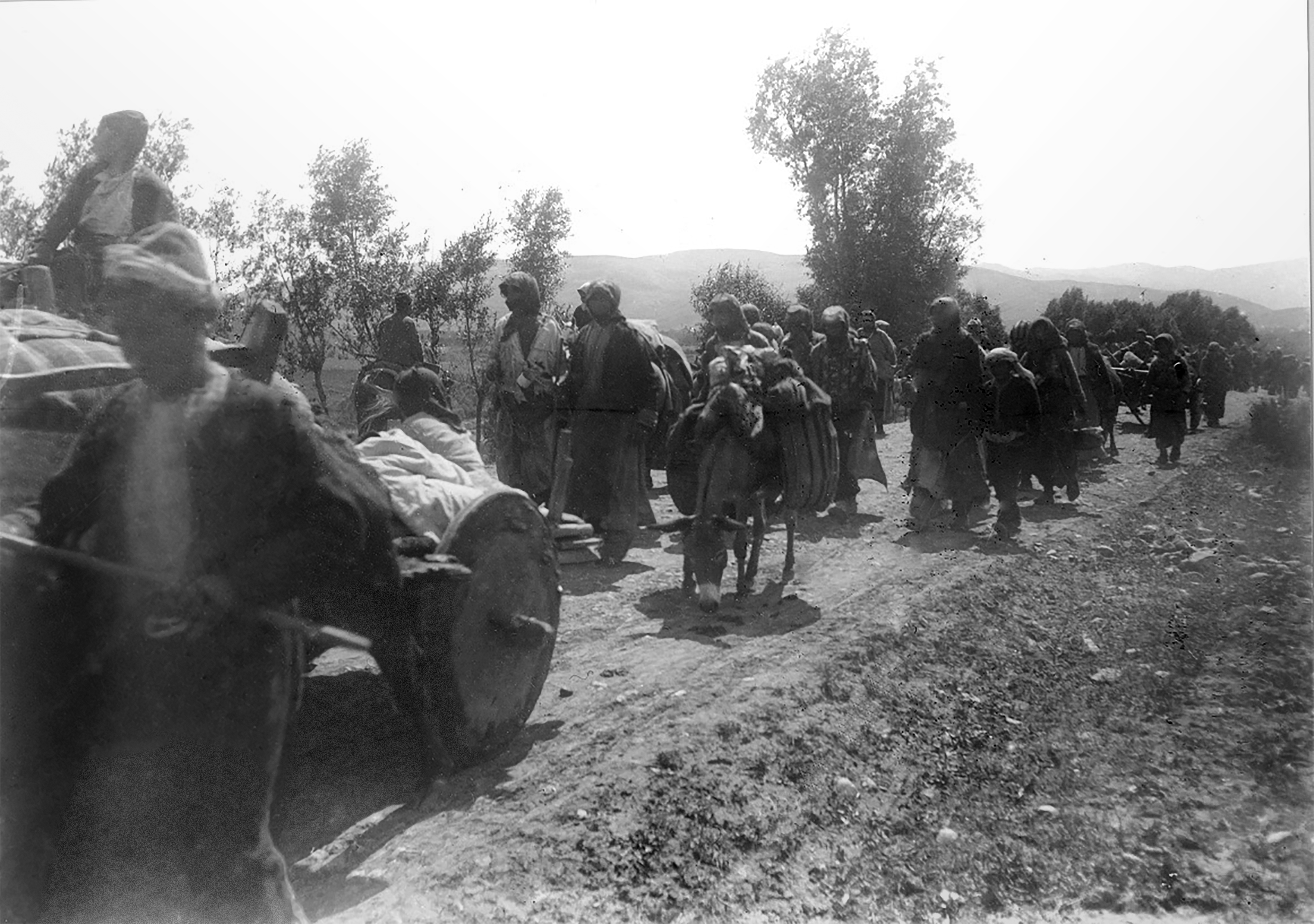 Armenian deportations in Erzurum. Pictures taken by Viktor Pietschmann